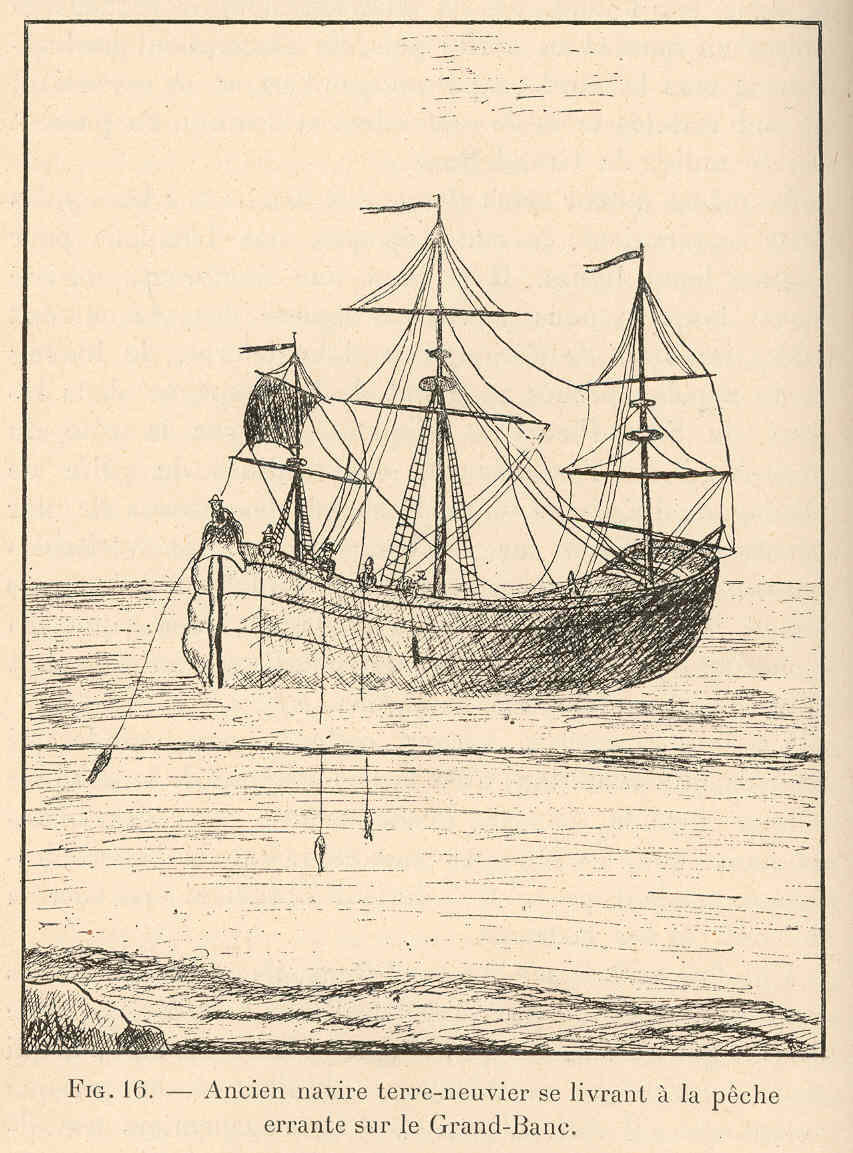 Subject: Sailing ships, Fishing boats Tag: Vessels